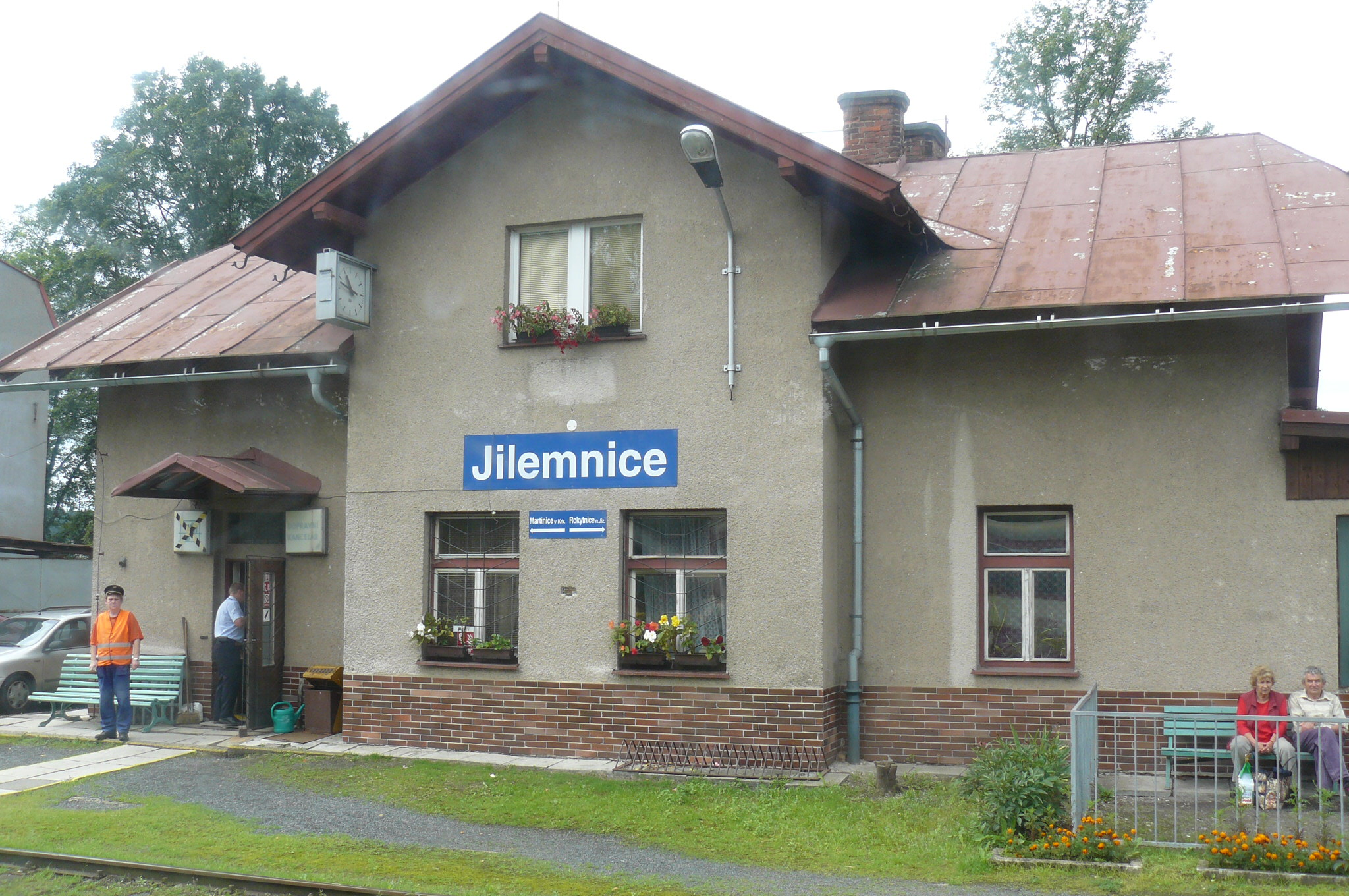 Jilemnice, Semily District, Czech Republic.